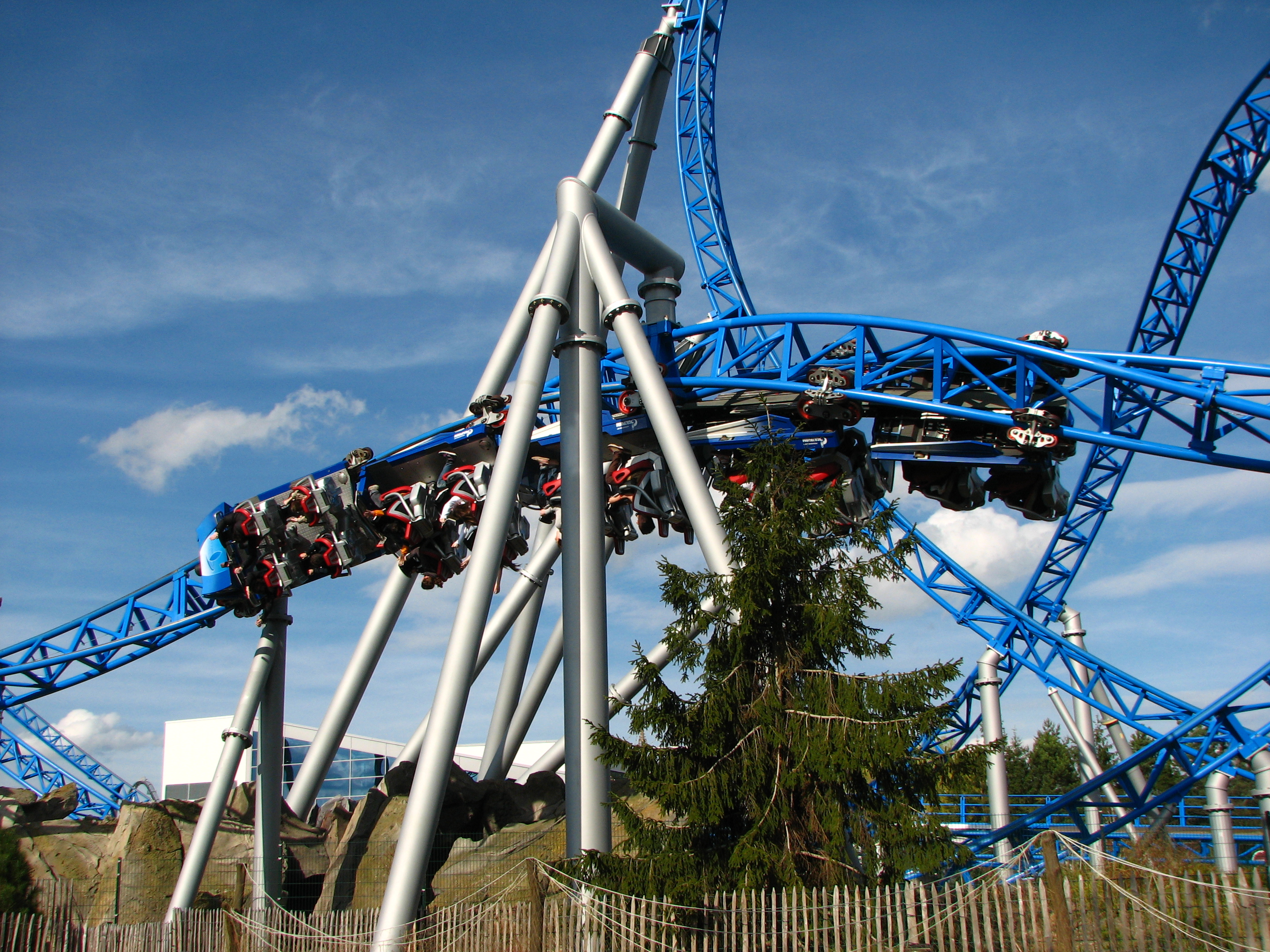 Blue Fire Megacoaster, Europa-Park, Rust, Baden-Württemberg, Germany.